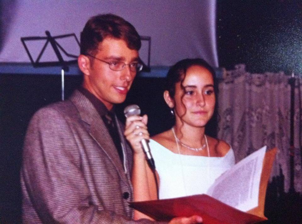 Eliseu com 15 anos coordenando uma evento do REMAR.